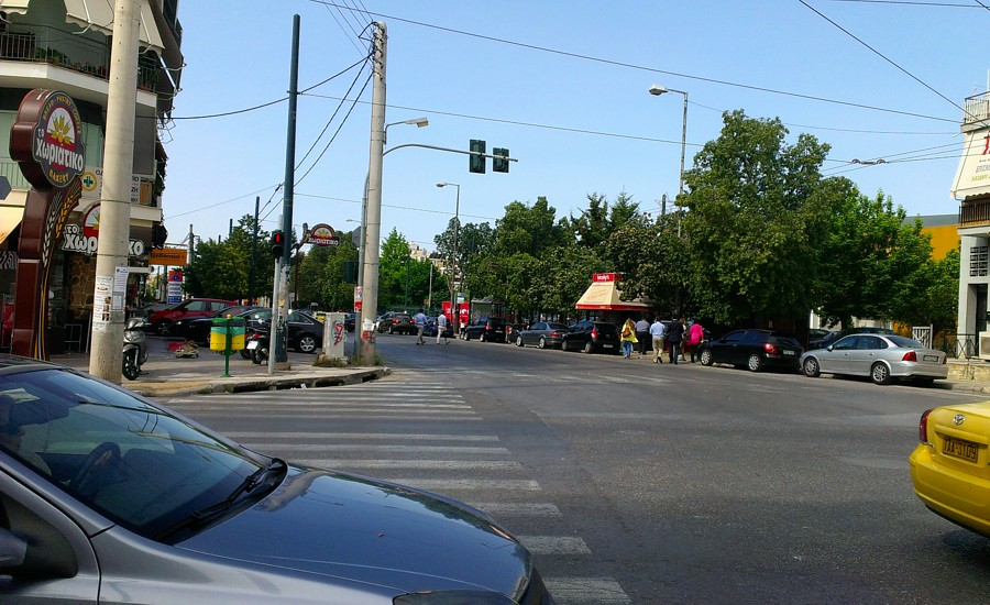 peristeri